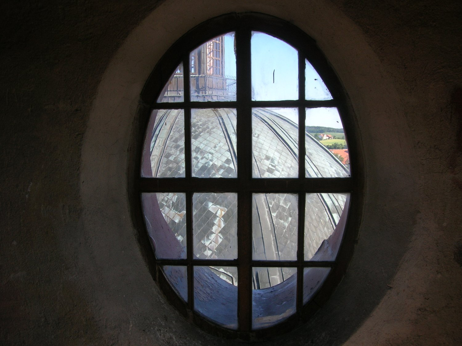 Jaroměřice nad Rokytnou. View from the tower of the St. Margaret Church.